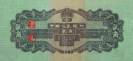 Back of second series 2 jiao renminbi